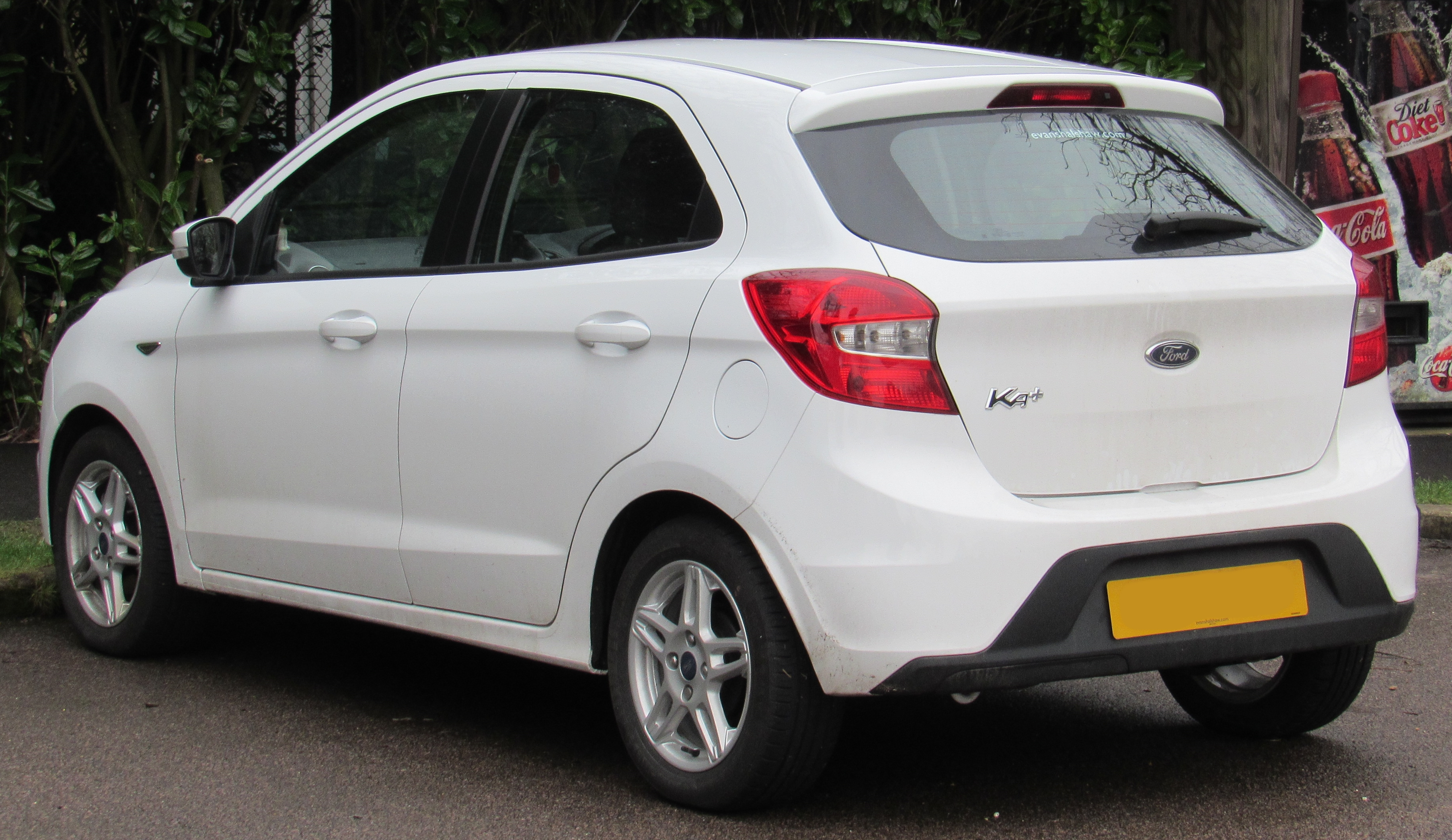 2017 Ford KA+ Zetec 1.2 Rear Taken in Warwick